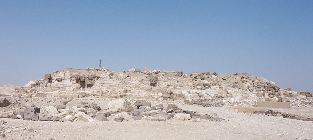 I took this photo myself in 2005.